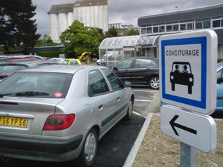 Materialization of parking spaces reserved for carpoolers: development of practice